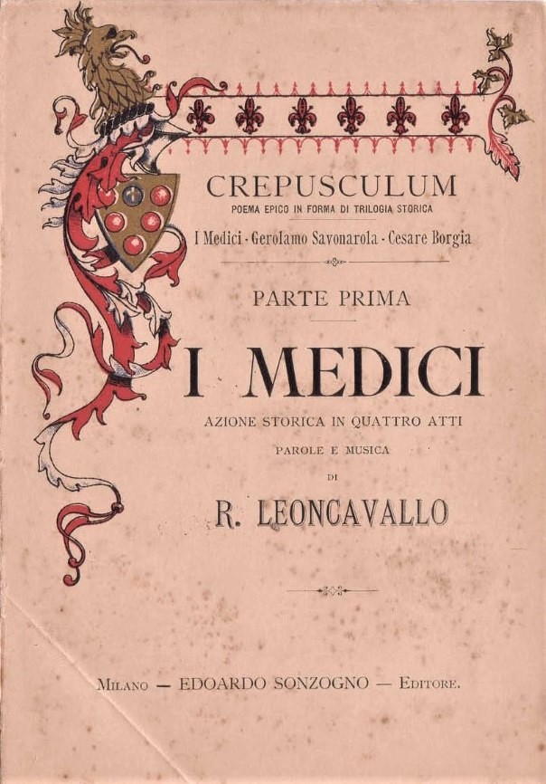 Cover of the libretto to Leoncavallo's opera I Medici published in Milan in 1894 by Sonzogno